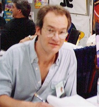 American illustrator Steve Purcell at the 1992 San Diego Comic Con.